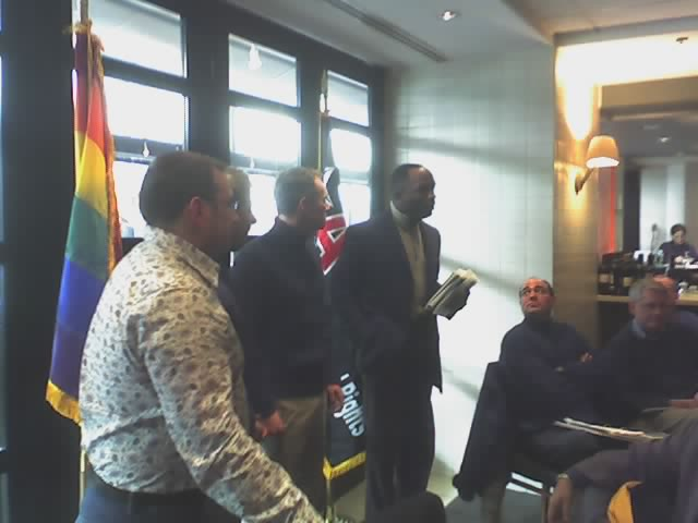 Photograph of Alan G. Rogers receiving an award for his work as Treasurer and membership chairman at the D.C. Chapter of the American Veterans for Equal Rights on January 16, 2005. Uploader is author.